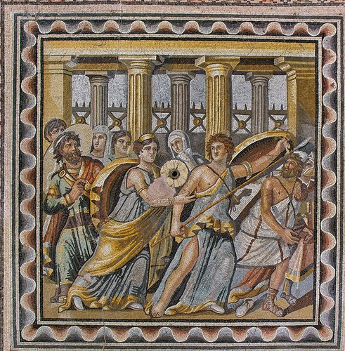 Achilles at Skyros